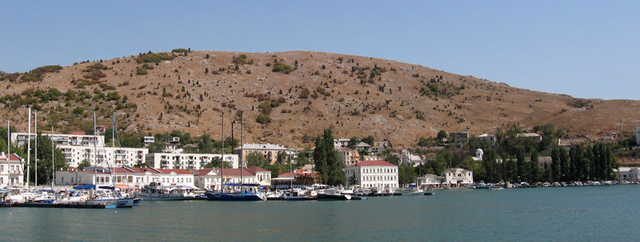 Nazukin quay in Balaclava